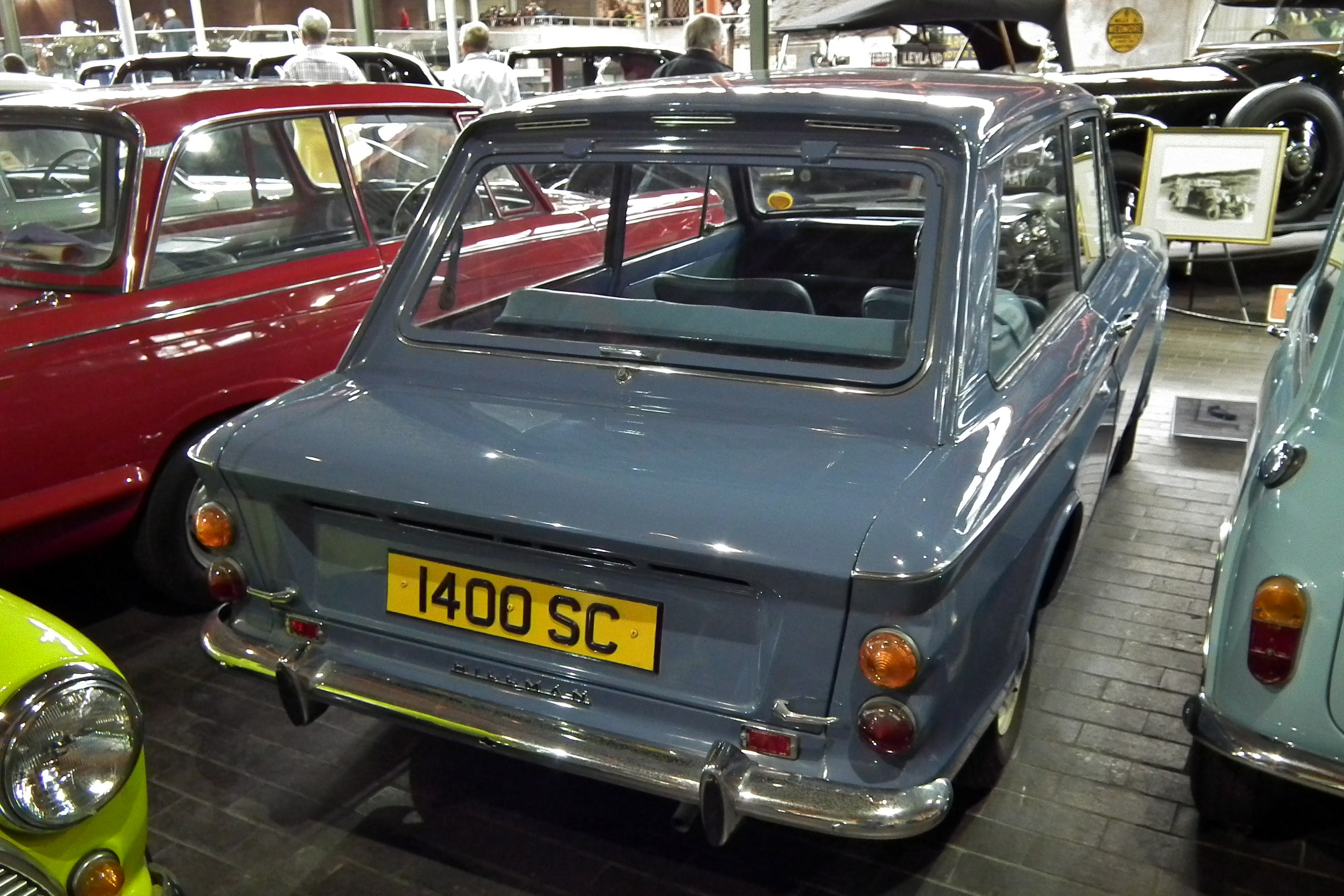 1963 Hillman Imp Deluxe. Taken at the National Motor Museum in Beaulieu, Hampshire, England.